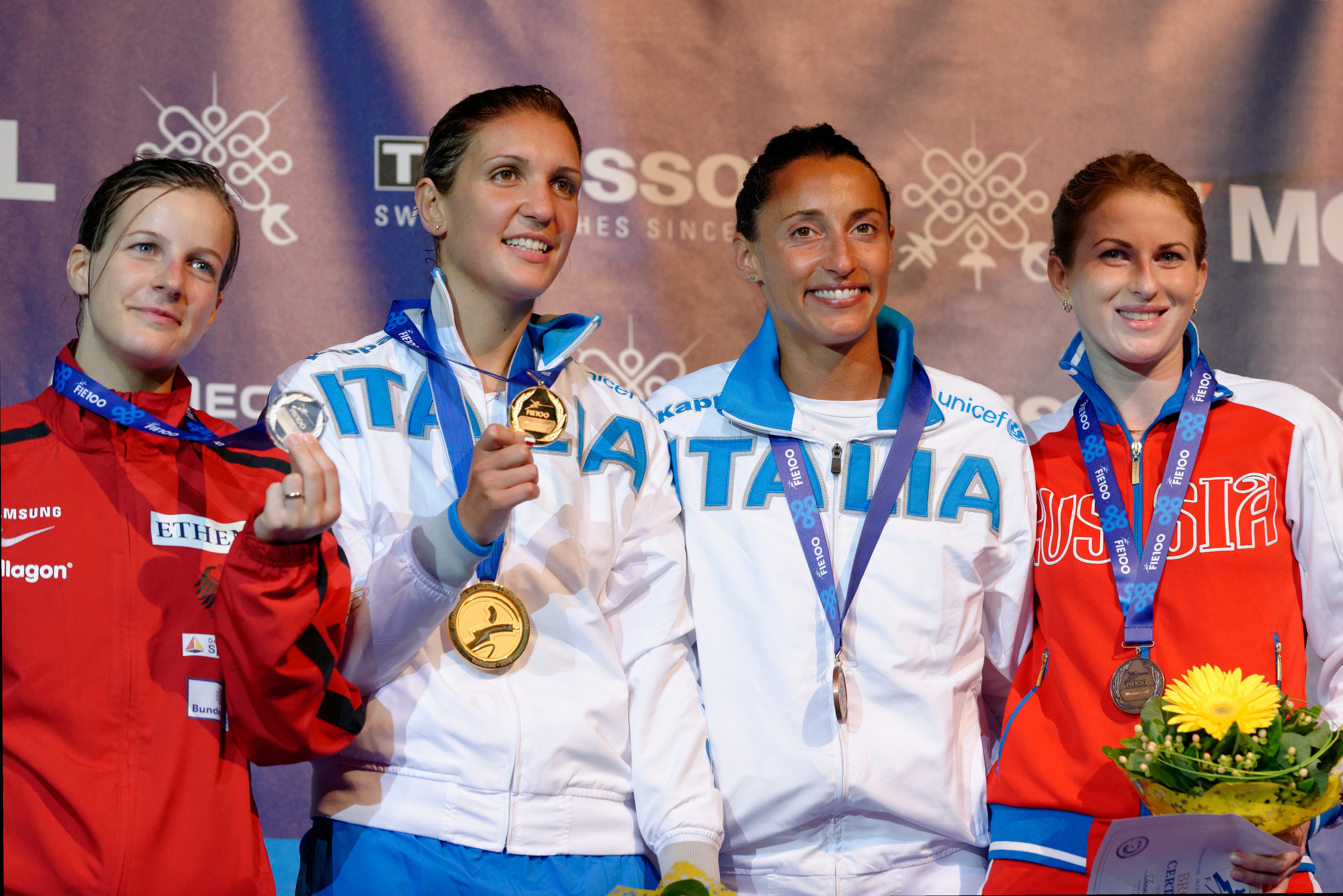 From left to right, Germany's Carolin Golubytskyi, Italy's Arianna Errigo and Elisa Di Francisca, and Russia's Inna Deriglazova stand on the podium of women's foil at the 2013 World Fencing Championships 2013 at Syma Hall in Budapest on 7 August 2013.